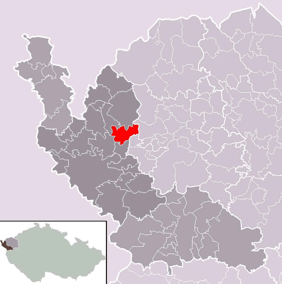 Location of Milhostov municipality within Cheb District and administrative area of Cheb as a Municipality with Extended Competence.